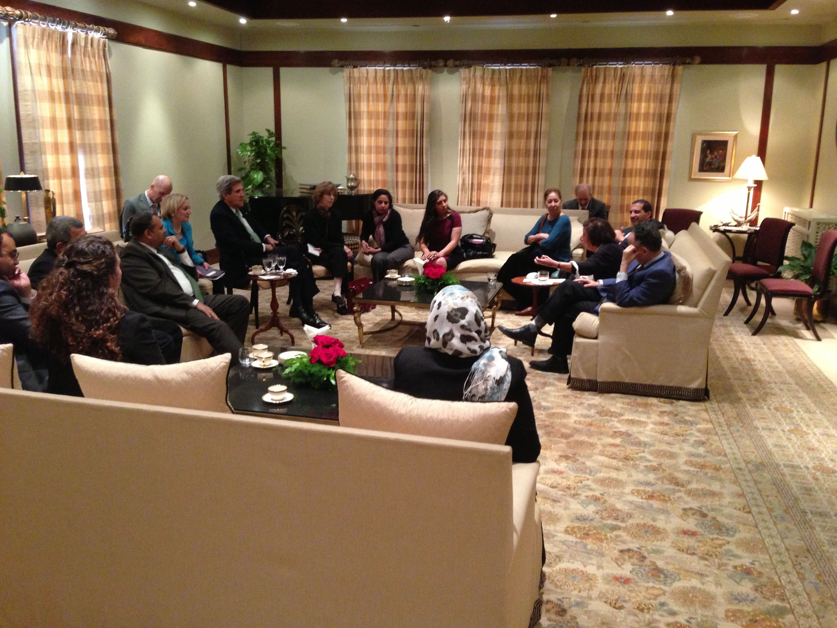 U.S. Secretary of State John Kerry meets with civil society leaders in Cairo, Egypt, on March 3, 2013. [State Department photo/ Public Domain]